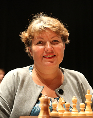 Alisa Galliamova at Superfinal of the Russian Chess Championship, Satka, 2018